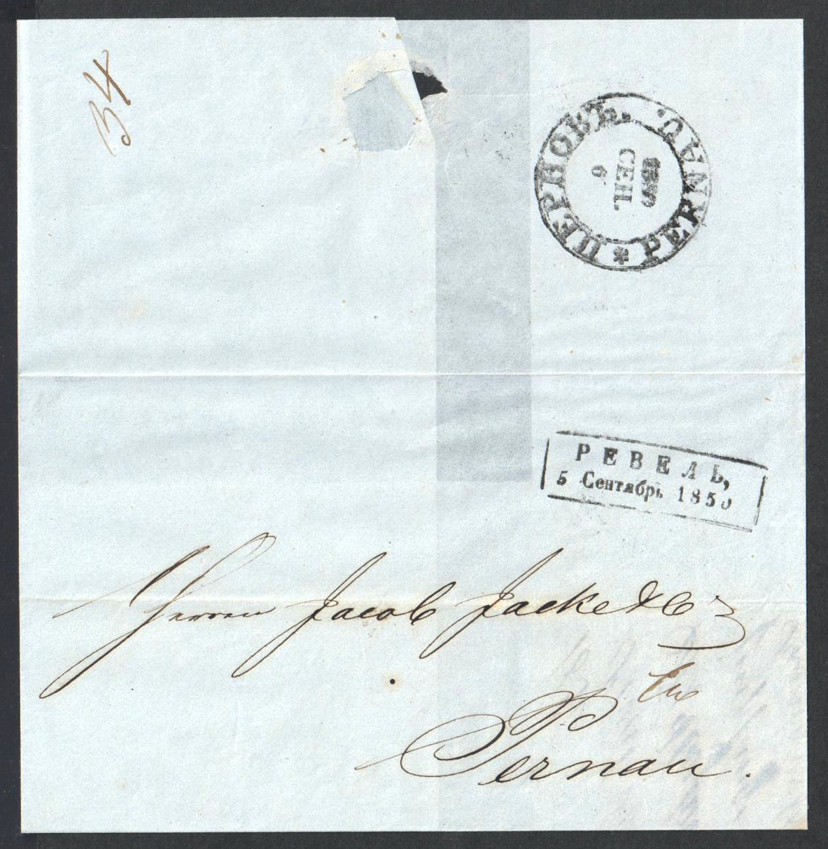 Russian stampless folded cover sent from Estonia 'Reval 5 Septbr. 1850' to 'Pernau 1850 SEP. 6'. Details: September 5 (Julian) 1850 wrapper, cover posted. Post office placed handstamp 'REVAL 5 September 1850' postmark. Reval was part of the Estlandia Government post office. '34' kopecks rate was assessed and noted. Dobin: Reval 39.1.14, used from 1845-1852, rarity 4.[1] Receiver reverse bilingual ‘PERNAU 1850 SEP. 6’. Dobin; Pärnu 40.2.09 - 1.04 used from 1841-1858 reception postmark, rarity 4.[2]